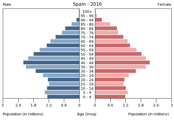 The population pyramid of Spain illustrates the age and sex structure of population and may provide insights about political and social stability, as well as economic development. The population is distributed along the horizontal axis, with males shown on the left and females on the right. The male and female populations are broken down into 5-year age groups represented as horizontal bars along the vertical axis, with the youngest age groups at the bottom and the oldest at the top. The shape of the population pyramid gradually evolves over time based on fertility, mortality, and international migration trends.